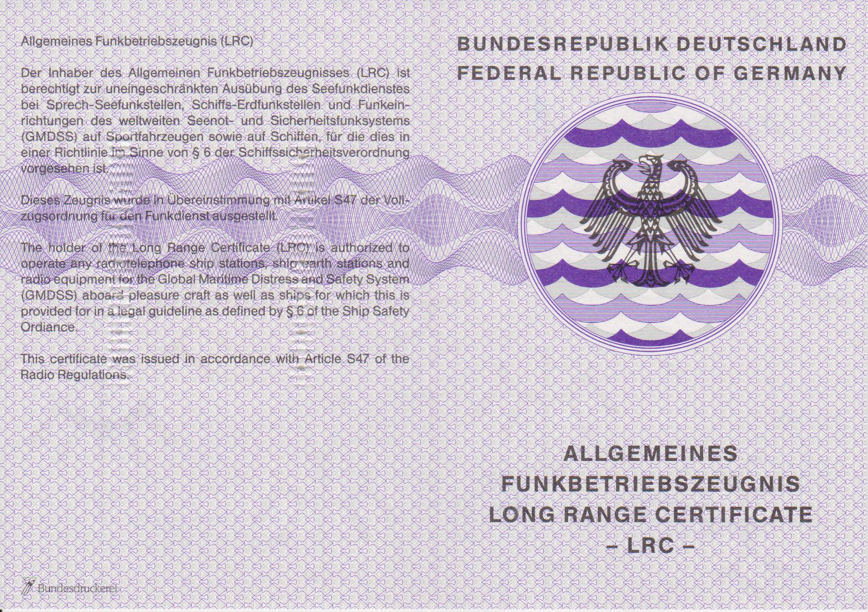 Long Range Certificate (LRC) VHF HF MF